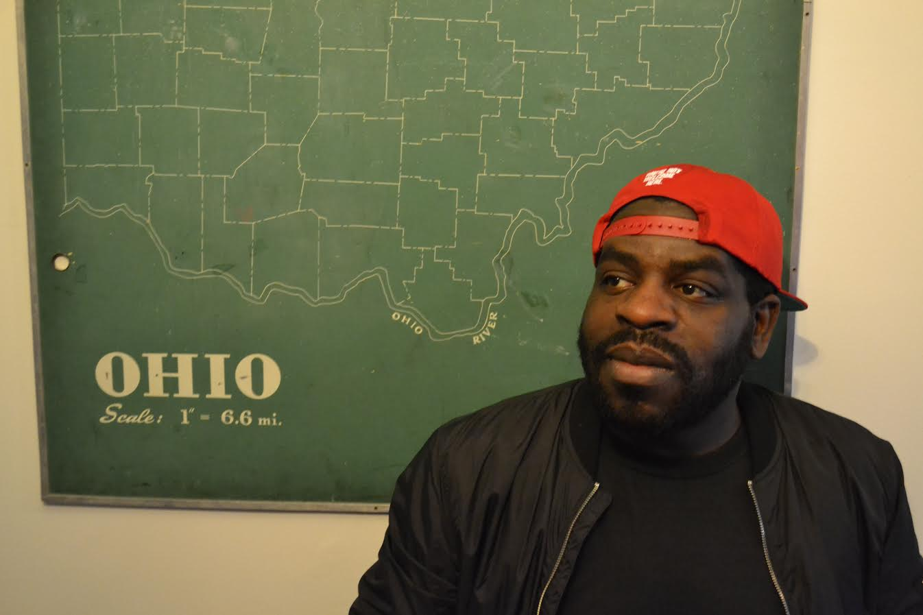 Hanif Willis-Abdurraqib in 2016